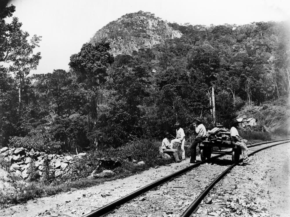 Railway workers on the Cairns Railway, ca. 1891. The Cairns Range Railway was built to connect the mining centre of Herberton with Cairns. Work began on 10 May 1886; the first sod was turned in Cairns by Samuel Griffith, Premier of Queensland, and the first train arrived in Herberton on 20 October 1910 (Information taken from: A.D. Broughton, A pictorial history of the construction of the Cairns Range Railway, 1886–1891, 1991). This image depicts railway workers, their camp and trolley, with a view of Glacier Rock in the background.